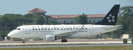 US Airways Express (Republic Airlines) Embraer 170 at Sarasota-Bradenton International Airport - Reg: N829MD